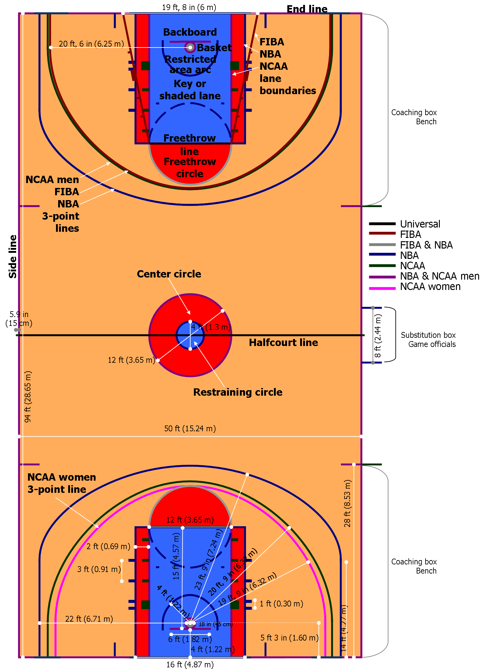 Diagram of a basketball court used primarily for men showing: Top half FIBA, NBA and NCAA (men) markings Measurements for FIBA three-point line and base of the key. Bottom half NBA and NCAA (men & women) markings (bottom half) Measurements both in metric and imperial units for important areas. References FIBA 2006 rules NBA rules 2007-08 NCAA 2008 rules